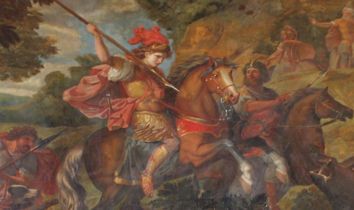 a painting of cyrus the great boar-hunting from the palace of versailles